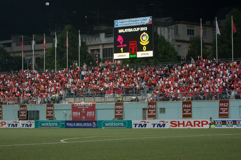 LionsXII fans at the 2013 Malaysia Cup quarterfinal home match against ATM FC at the Jalan Besar Stadium, Singapore.